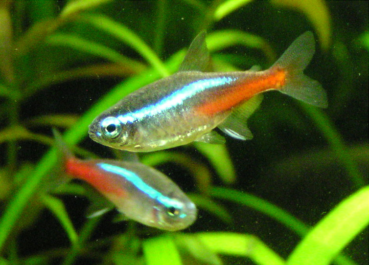 Paracheirodon innesi is one of the most popular aquarium fishes.